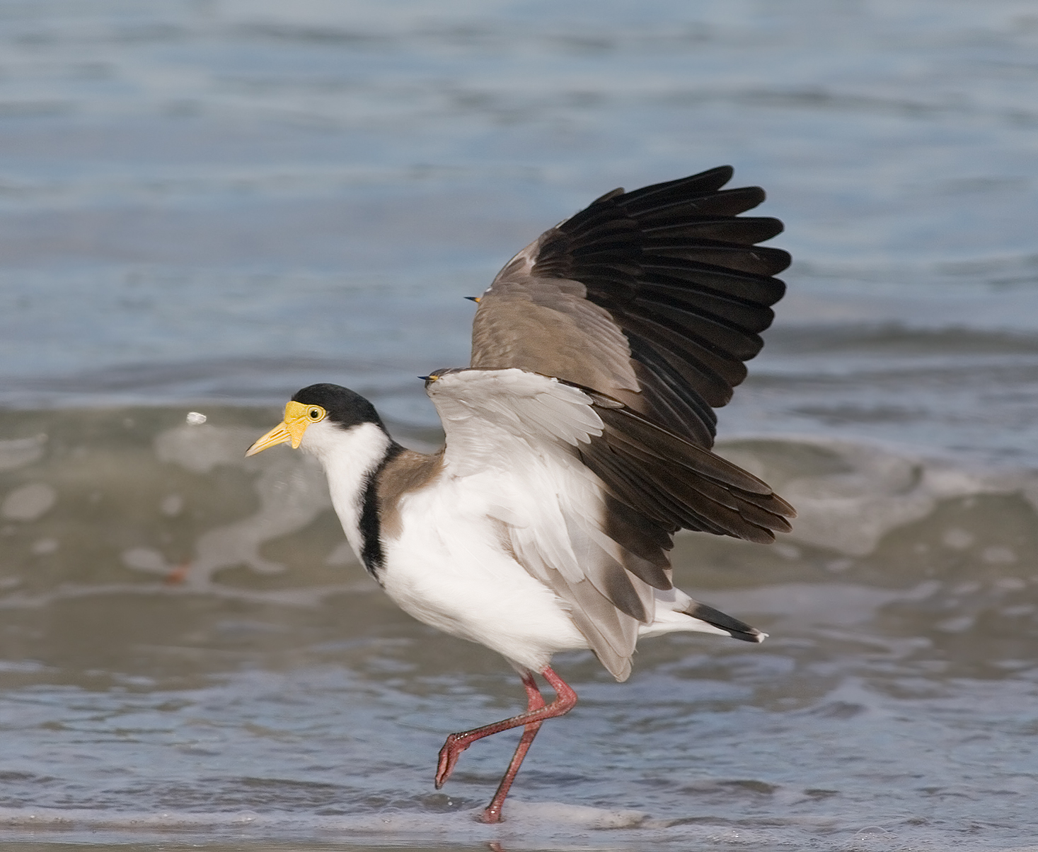 Masked Lapwing (Vanellus miles), Bruny Island, Tasmania, Australia Camera data Camera Canon EOS 400D Lens Canon EF 400mm f5.6L Flash Fill w/ Fresnel Extender Focal length 400 mm Aperture f/7.1 Exposure time 1/1600 s Sensivity ISO 400